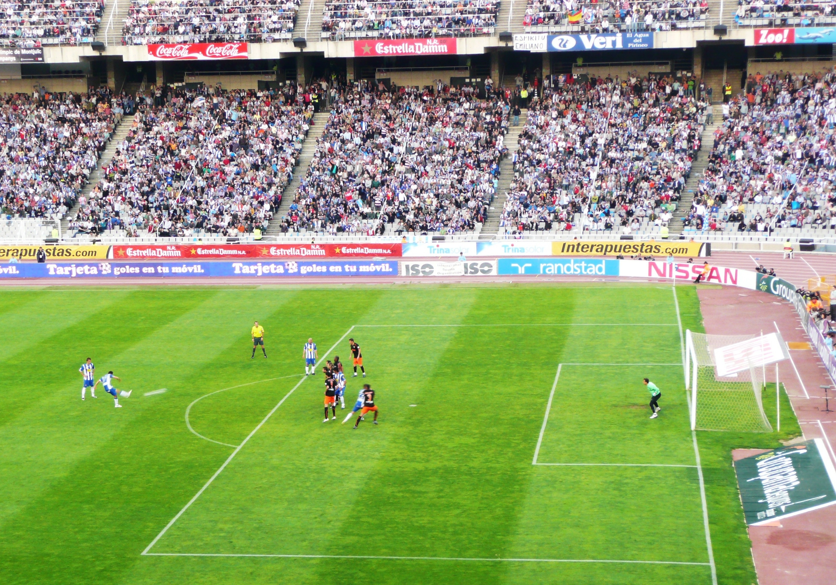 Direct free kick, Espanyol - Valencia FC at Luís Companys Olympic Stadium (Barcelona), 03/05/2009